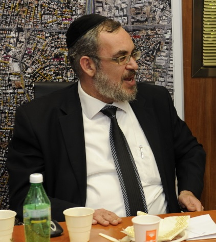 Cropped version of this photo to use to show Yaakov Asher alone.